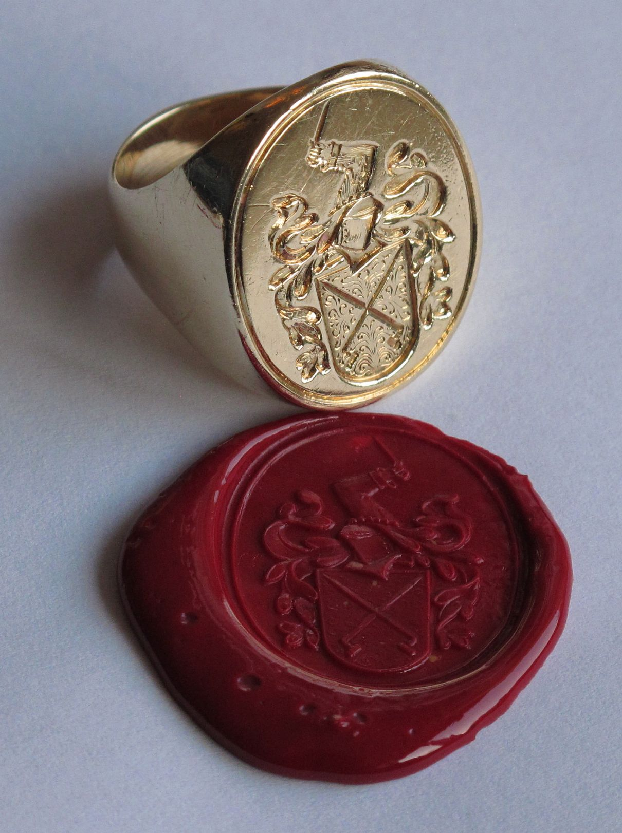 Signet ring engraved with the personal coat of arms of Elith Ole Andersen Hedegaard. The ring belonged to E.O.A. Hedegaard until his death in 2014. Heavy and weighty construction made of 14 carat solid gold.